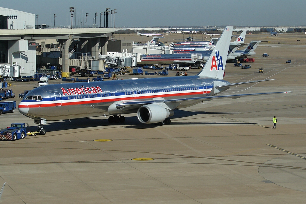 "AA 123" pushing back for HAWAII.